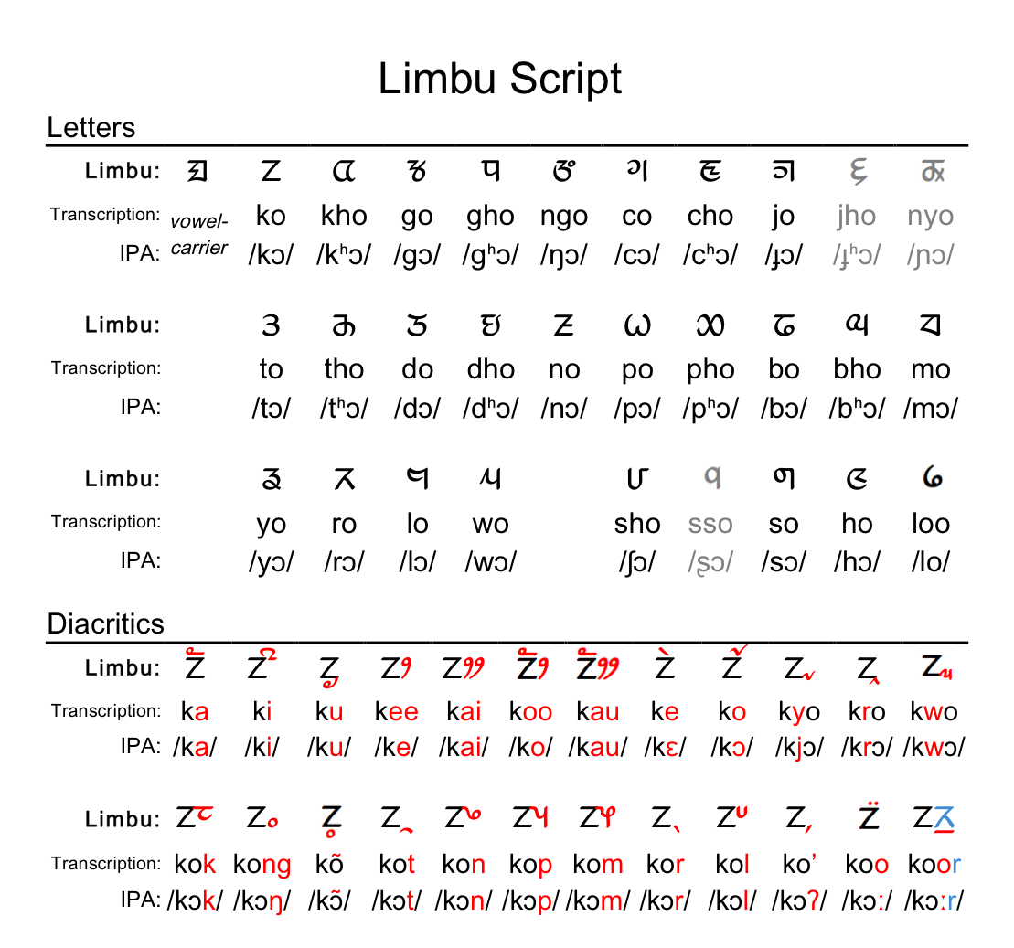 Limbu script: Limbu, transcription, IPA. Obsolete letters in gray.